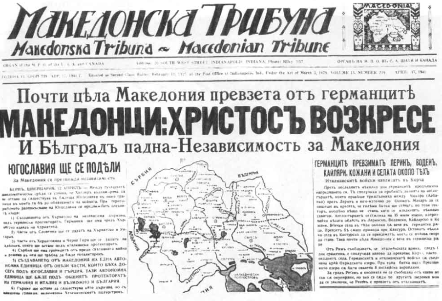 The Macedonian Tribune Newspaper published by the Macedonian Patriotic Organization in the United States. Its issue from 17 April 1941 is greeting the Germans as liberators of Macedonia in WWII.Headline: All of Macedonia is liberated by the Germans! Macedonians: Christ has arisen, Belgrade has fallen – Independence for Macedonia!